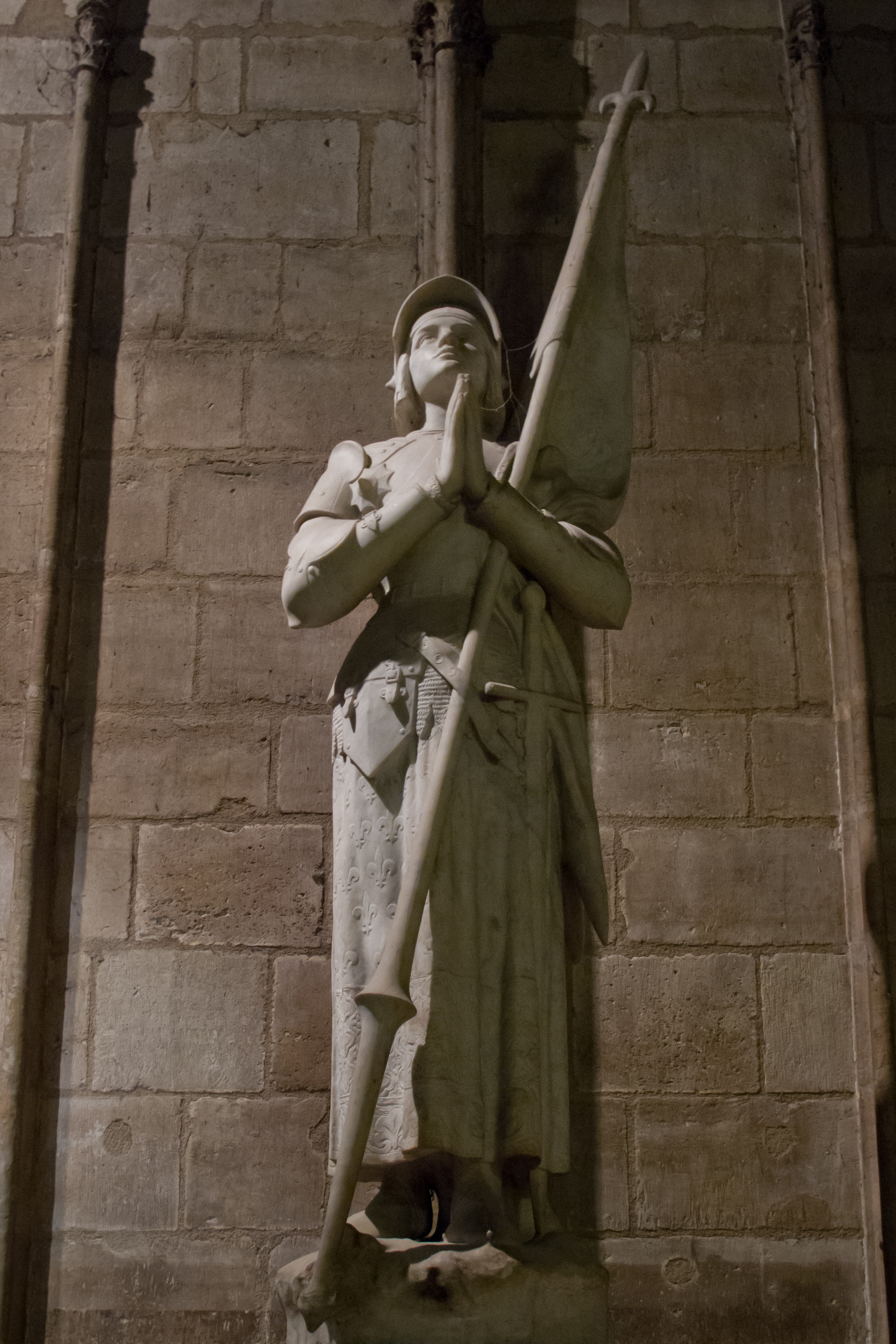 Statue of Joan of Arc in Notre-Dame of Paris, France.